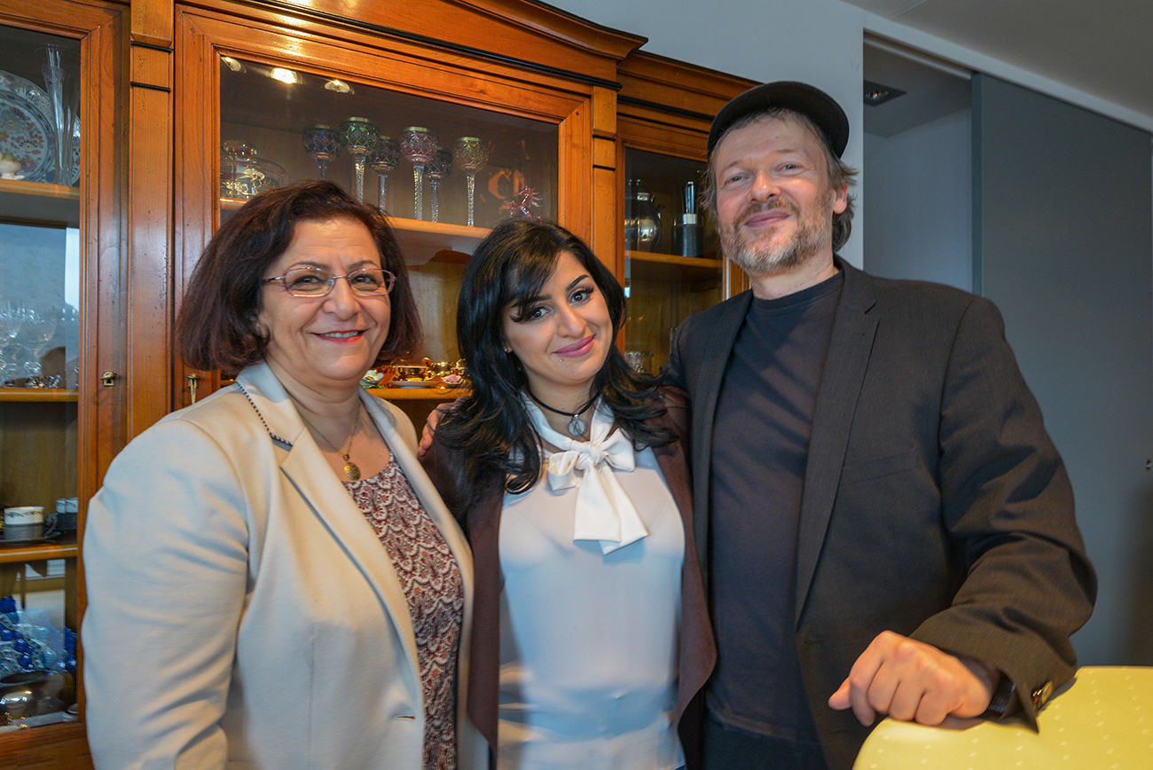 Autorin Rana Ahmad hält Lesung ihres Buches "Frauen dürfen hier nicht träumen" in Oberwesel, Dr. Michael Schmidt-Salomon moderiert Lesung 14. Januar 2018